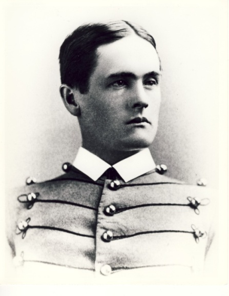 Samson L. Faison's USMA graduation photo 1883